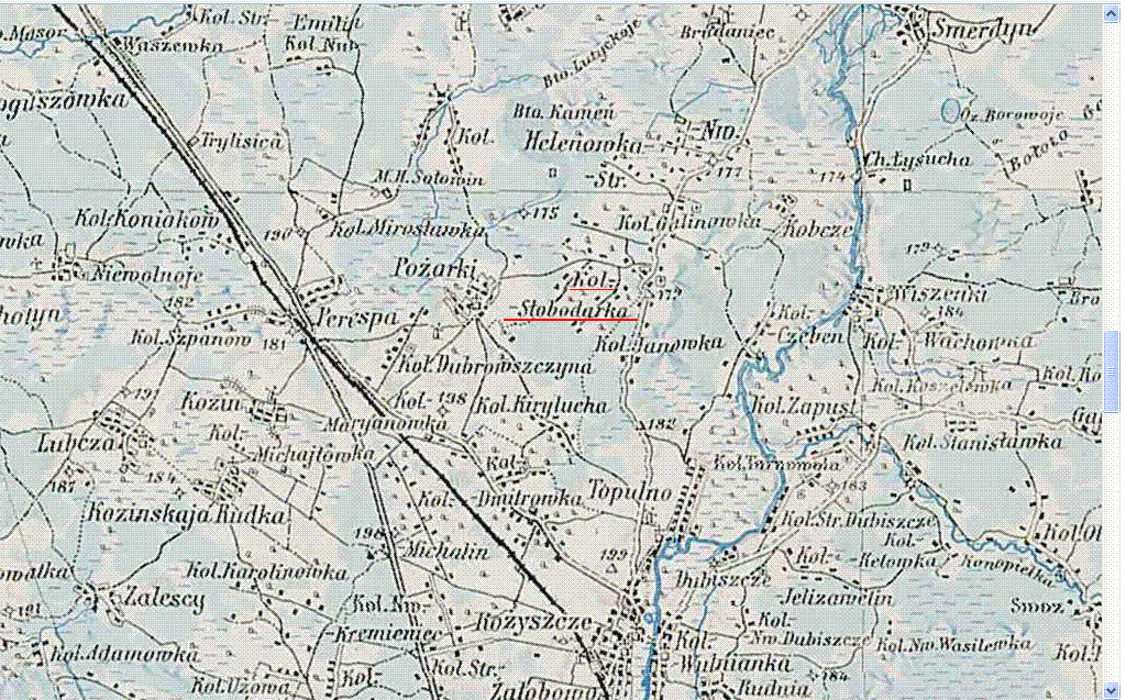 Area around Slobodarka on a military Austrian map